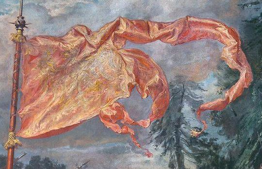 Battle of Grunwald, fragment showing the torn banner of the Kingdom of Poland